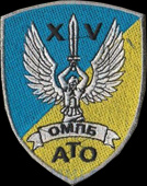 15th motorized infantry battalion SSI (Ukraine)